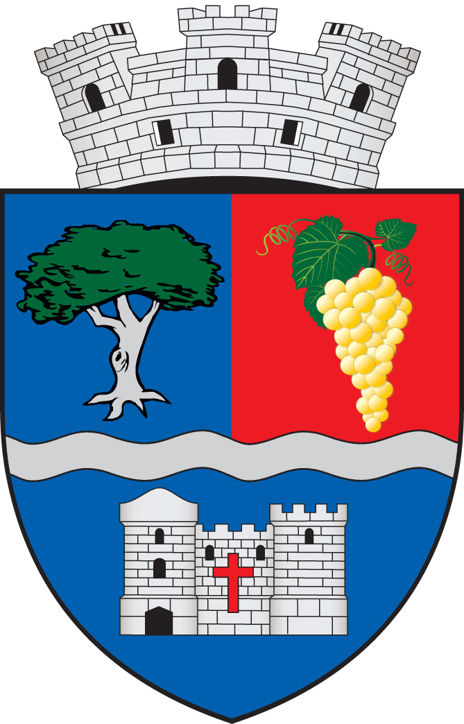 Coat of arms of Șimleu Silvaniei, Sălaj County, Romania.